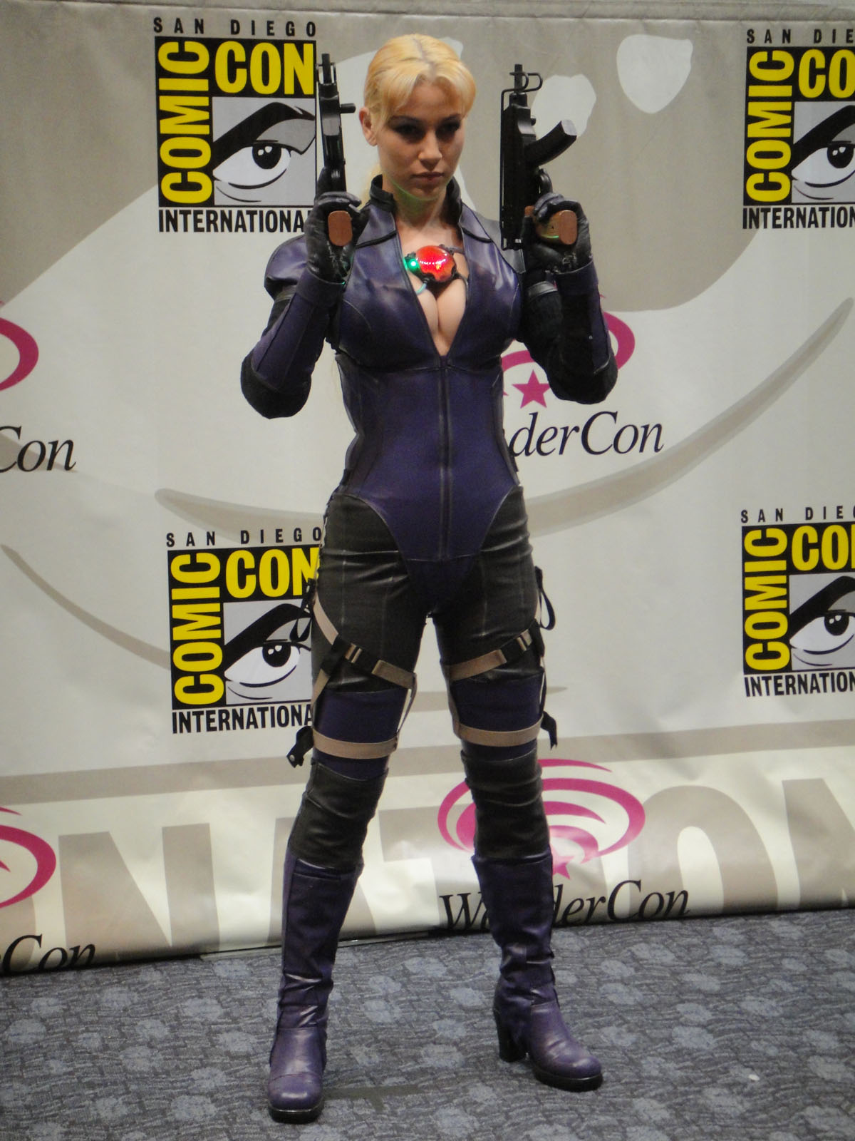 Cosplay of Resident Evil 5.